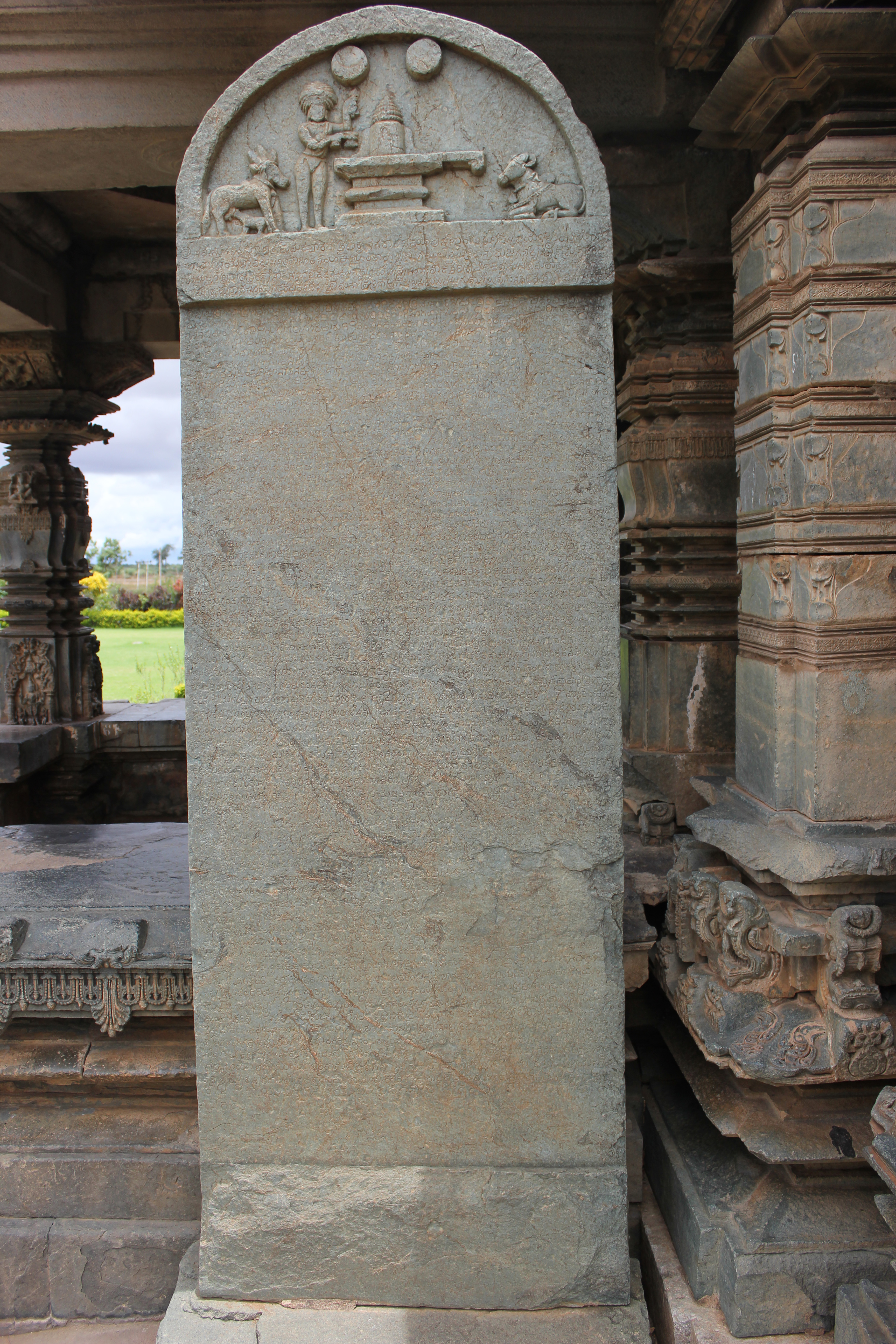 This photograph of an old Kannada inscription (1212 AD) from the rule of Hoysala King Veera Ballala II was taken by me at the Kalleshvara temple (also spelt Kalleshwara or Kallesvara, also called Kattesvara) in Hire Hadagali, Bellary district, Karnataka state, India. The temple was built in 1057 A.D. by Western (Kalyani) Chalukya King Somesvara I. Source:South Indian Inscription, Volume IX, Kannada Inscriptions from Madras Presidency, Miscellaneous Inscriptions in Kannada, Part1, Hoysalas, no. 330, editors: Shama Shastry, Lakshminarayana Rao, Archaeological Survey of India, New Delhi